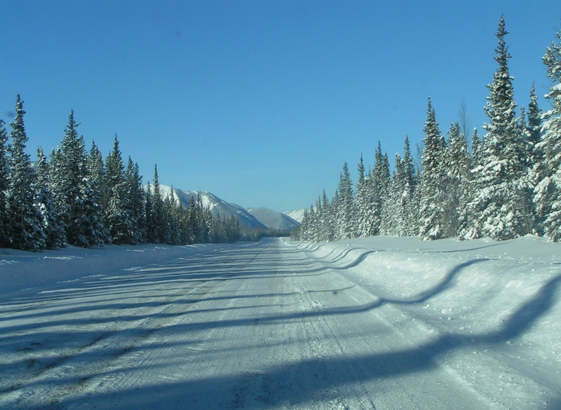 Alaska Highway (somewhere between km550 and 600 in northern British Columbia).